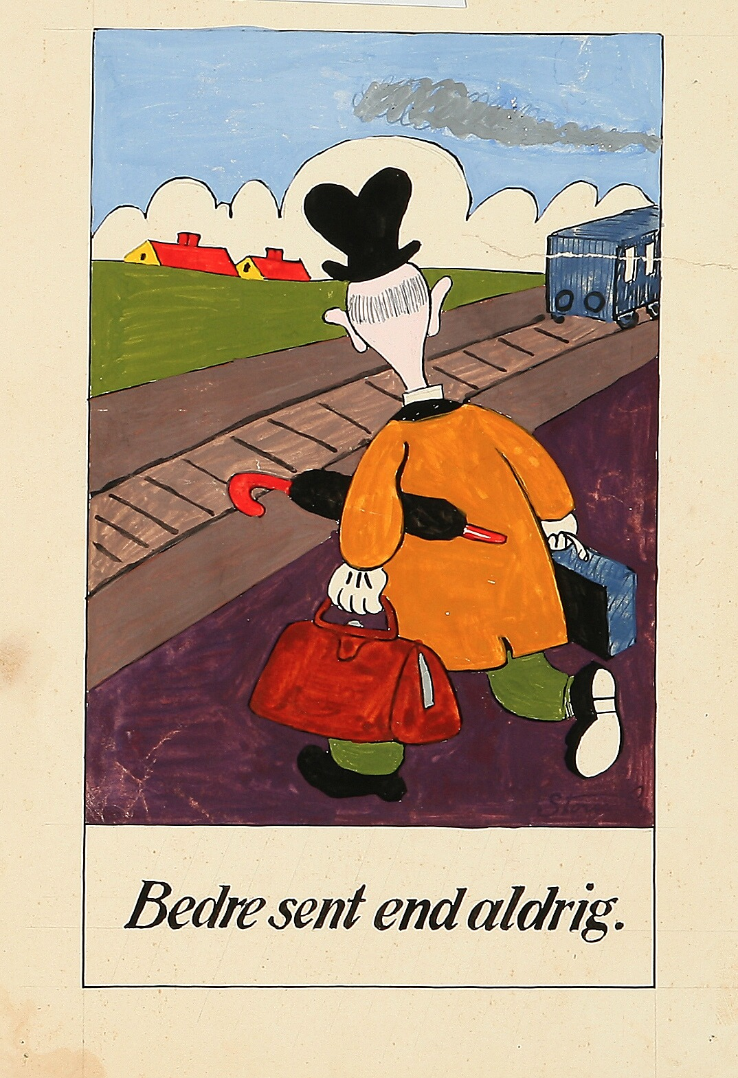 12 drawings with illustrations of proverbs, later colouring. Indian ink and gouache.